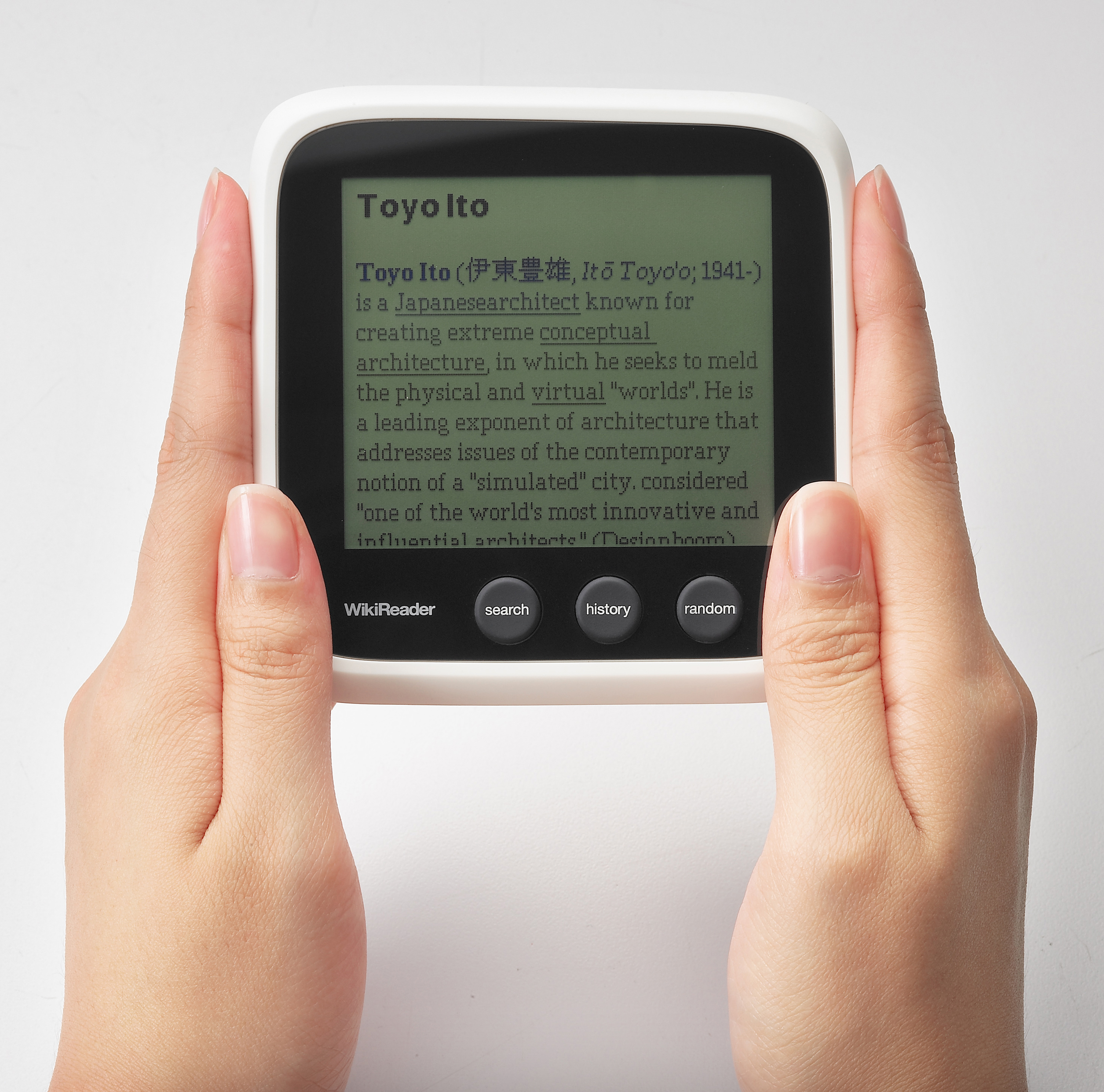 WikiReader